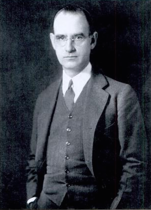 Photo of the American philanthropist and businessman Ward Melville in the 1920s